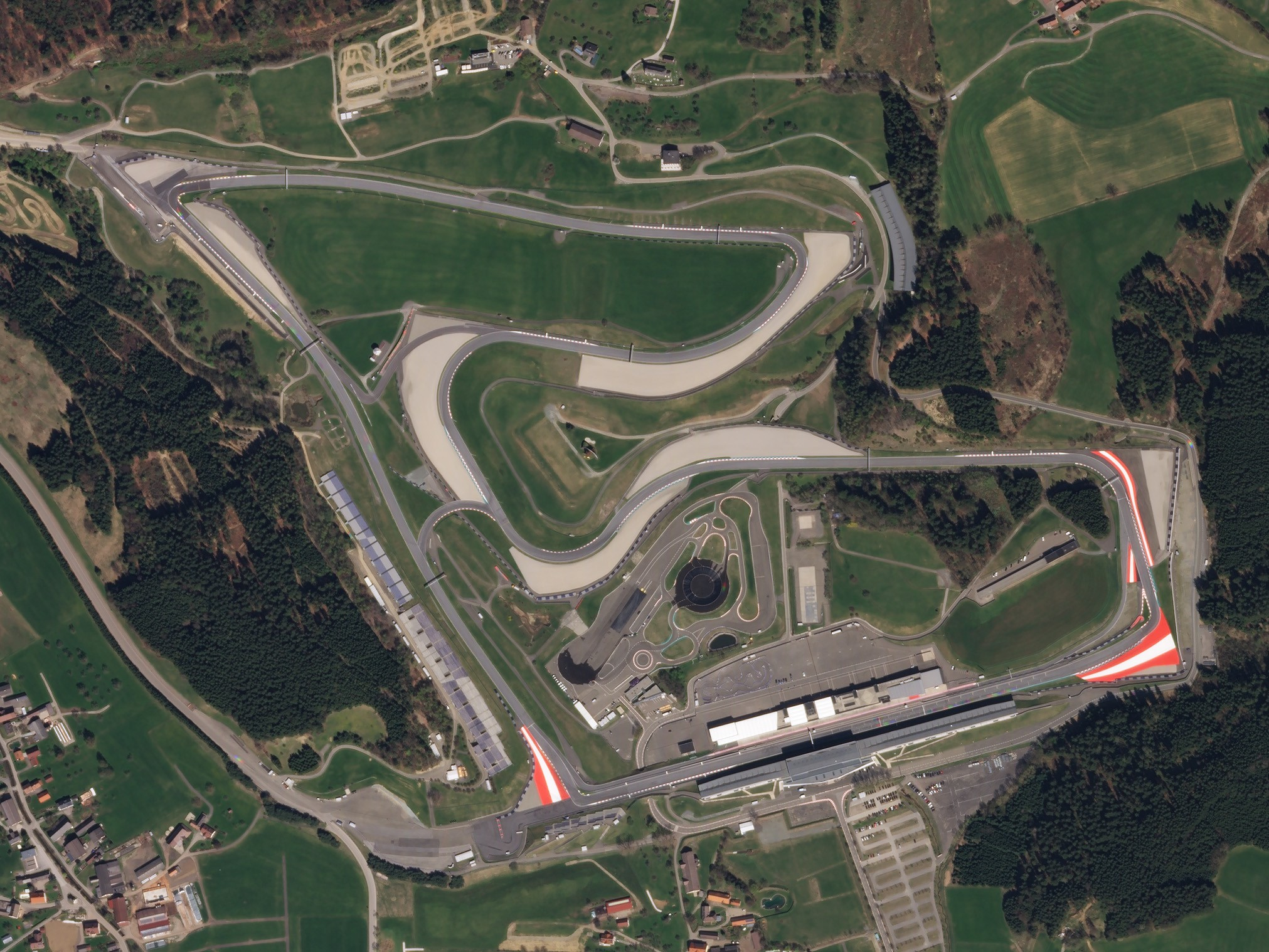 The Red Bull Ring, a motorsport race track in Spielberg, Styria, Austria and host of the Austrian Grand Prix. Image taken on April 18, 2018, by a Planet Labs SkySat satellite.